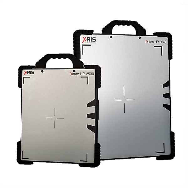 Dereo UP is a range of Ultra Portable Digital radiography Xray detetors that are used in Non Destructive Testing and in Securty.